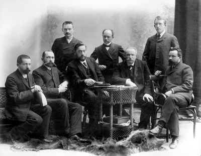 Professors and lecturers of the Medical Faculty of the Tomsk Imperial University (1910). From left to right sitting: Liberov, Plavinskii, Levashev, Kurlov, Vershinin; standing: Shcherbakov, Riazanov, Lomovitckii